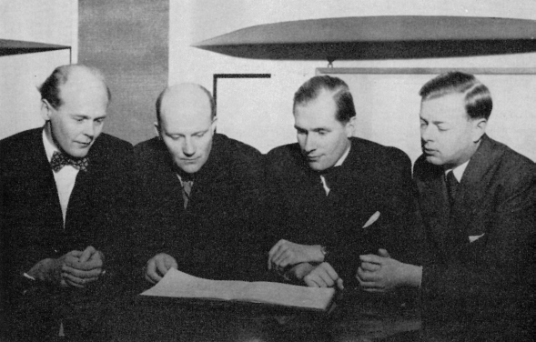 Four Finnish composers planning their joint concert in 1948: from left to right, Jouko Tolonen, Ahti Sonninen, Einari Marvia, and Taneli Kuusisto.